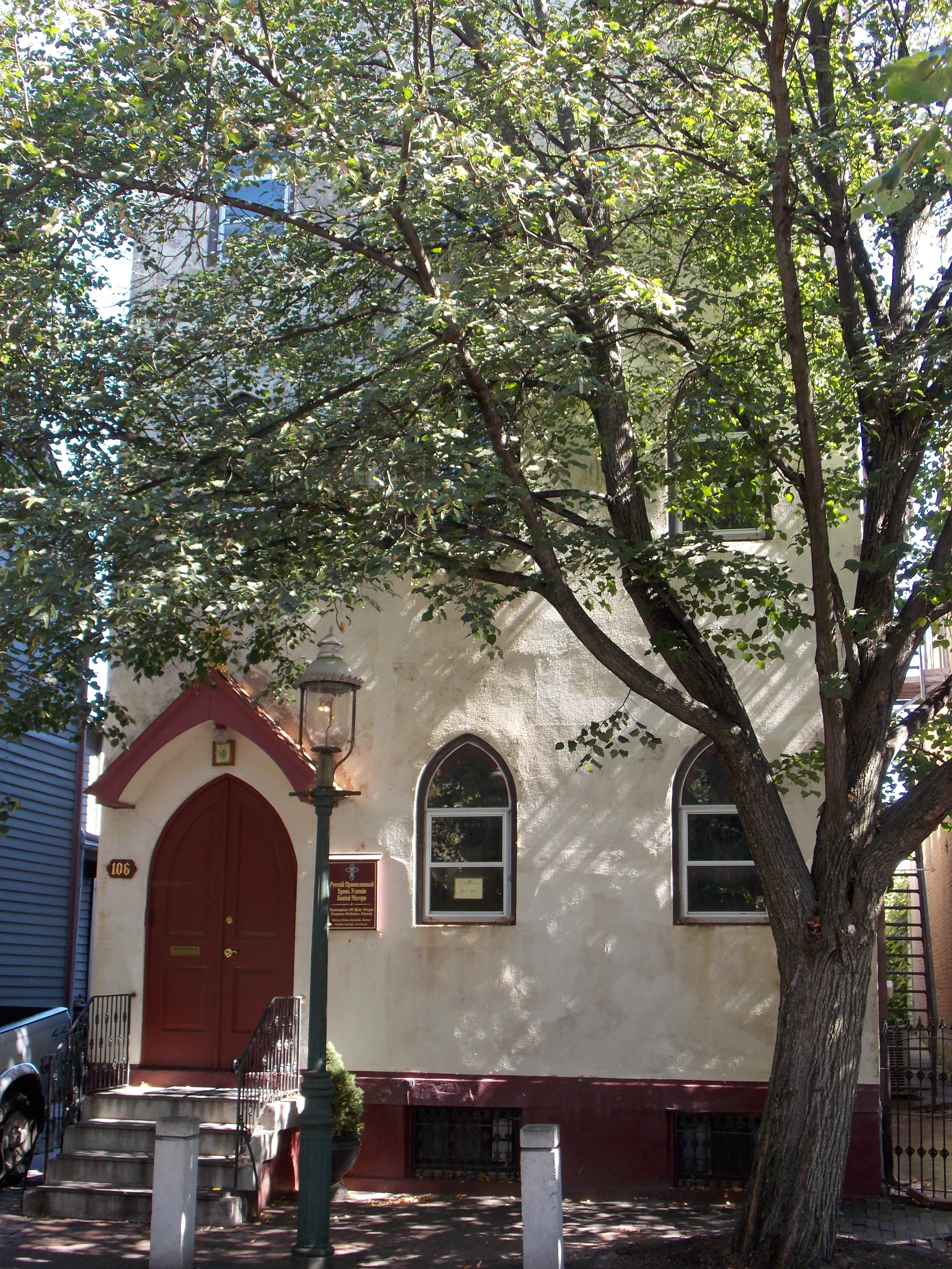 Cathedral of the Holy Assumption (Russian True Orthodox Church Abroad) in Trenton, New Jersey.